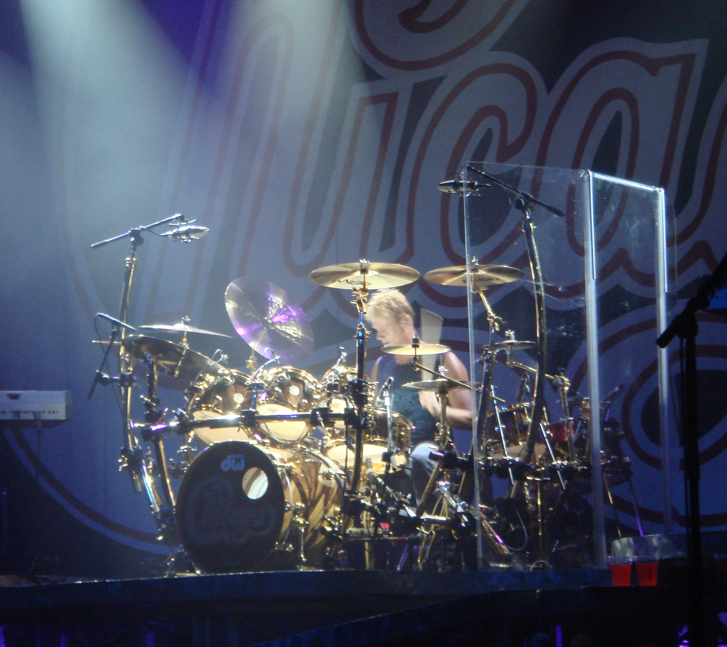 Tris Imboden, American drummer for the band Chicago, performing at the MGM Grand Las Vegas (Paradise, Nevada)